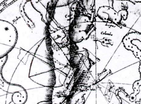 Gallus